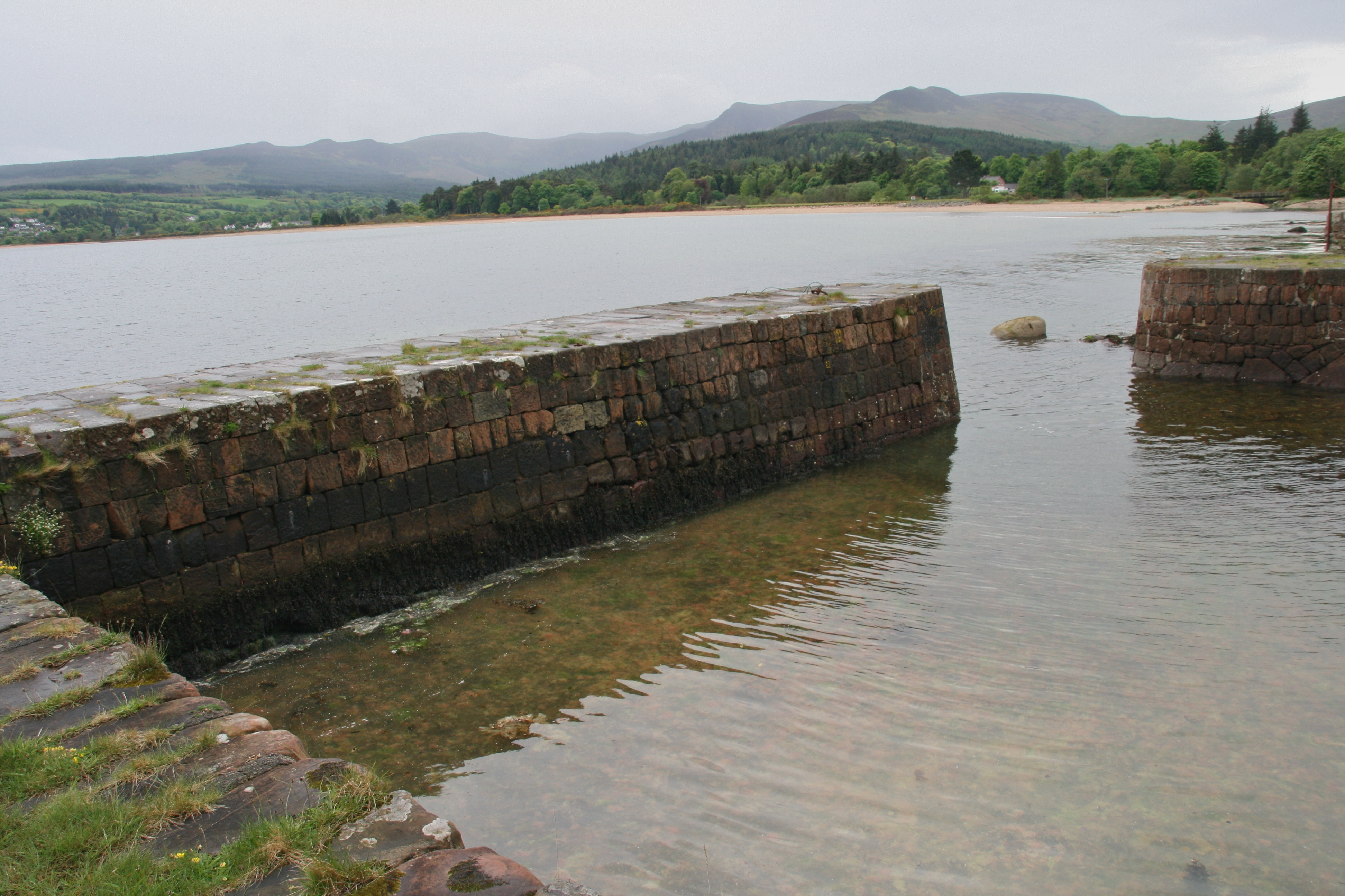 The quay at Brodick Castle, Isle of Arran.